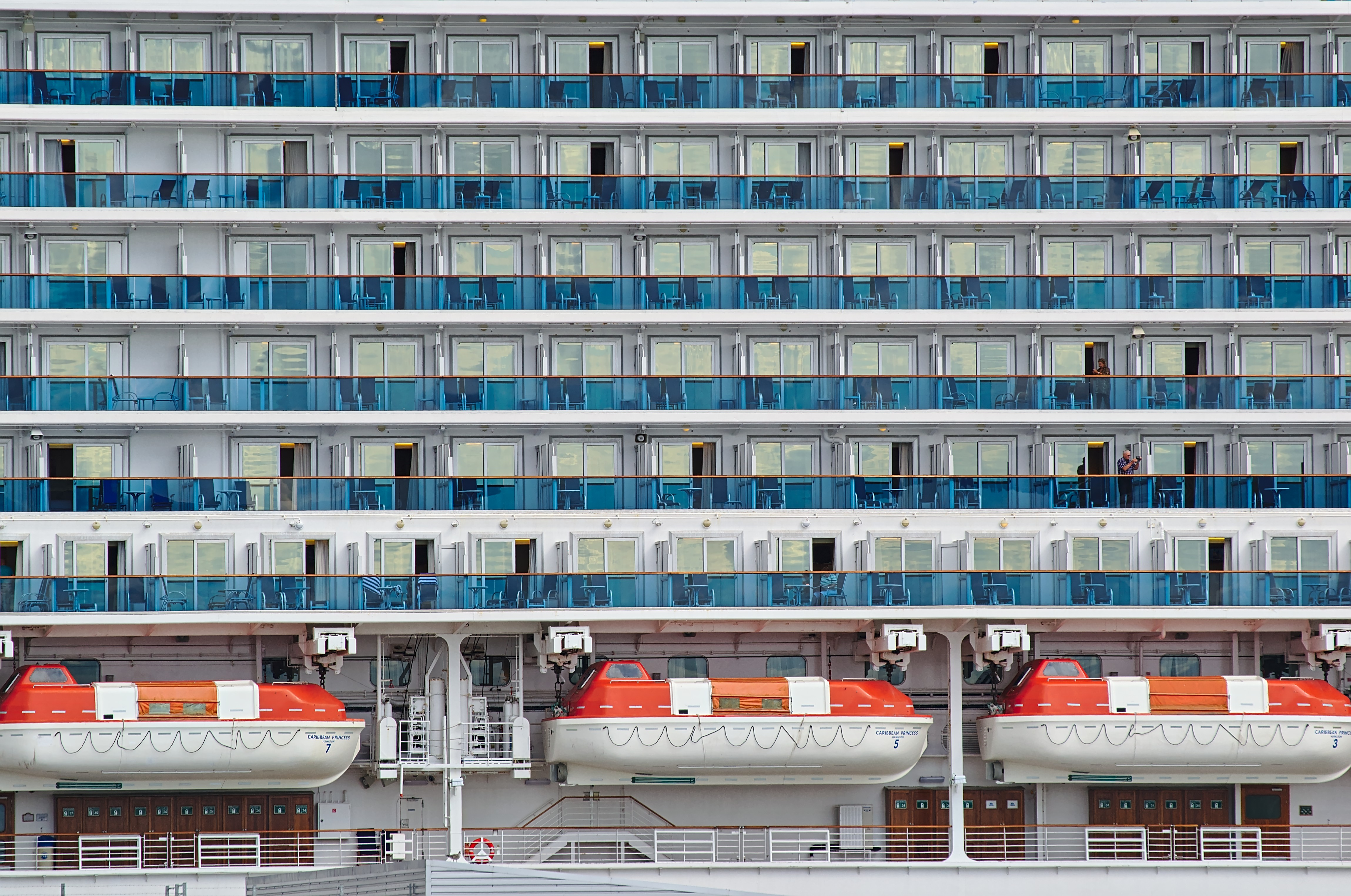 Balconies of a cruise ship with liveboats, taken in the harbour of Southampton